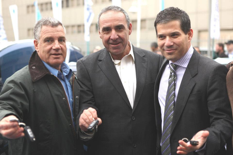 Shai Agassi, Idan Ofer, and Moshe Kaplinsky pose with their set of keys to their new electric car. Better Place